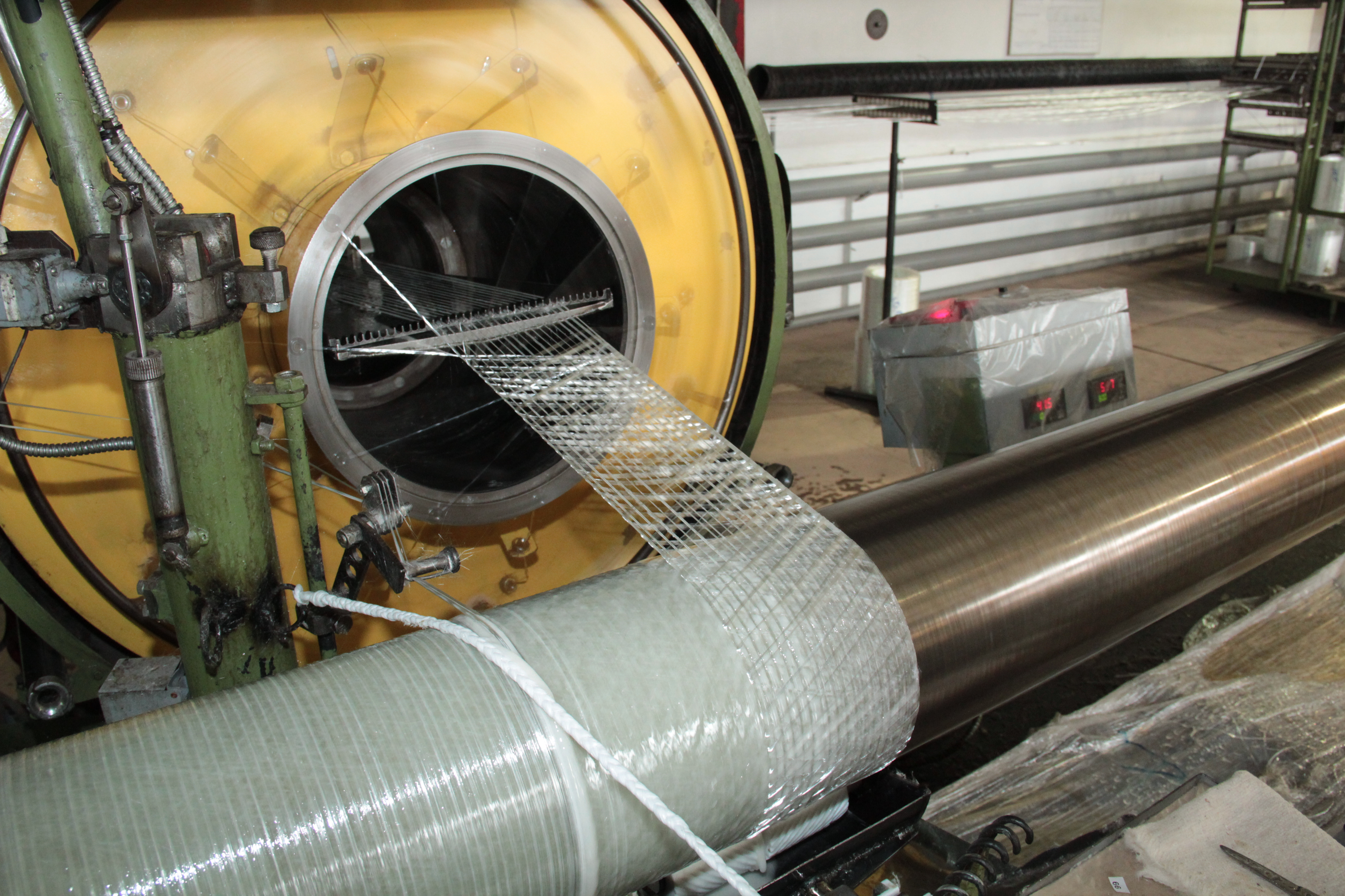 Obliquely longitudinal cross-layer winding of fiberglass pipe